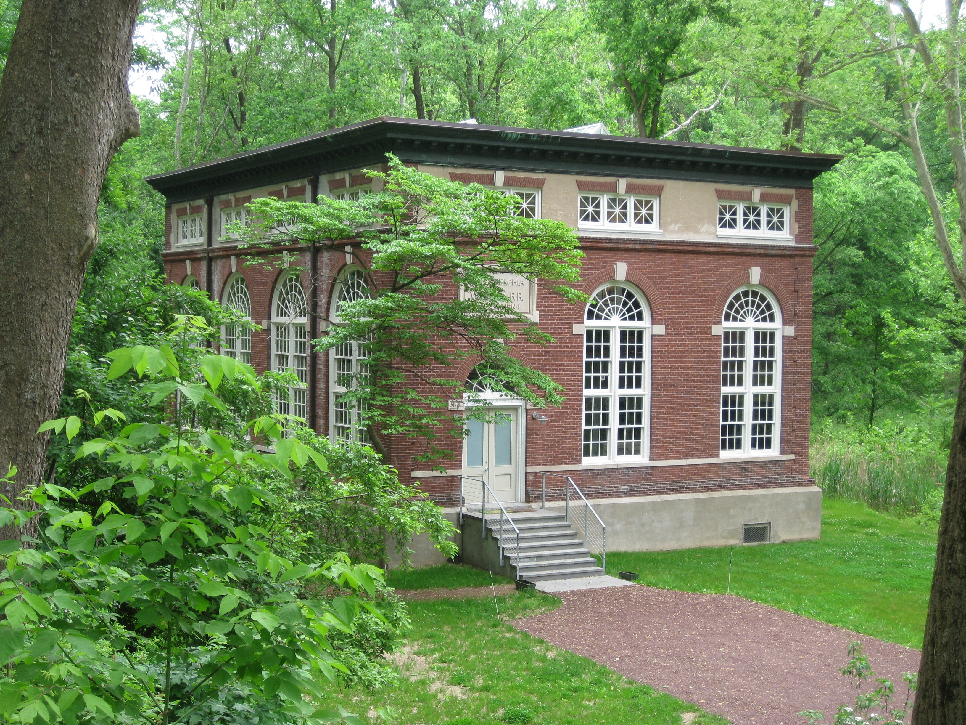 Photograph of the Ithan Substation of the Philadelphia and Western Railroad, known as Substation 1. This is on the Straford branch which was built circa 1910 and closed in 1953. Currently the substation is used as an artist's studio and is adjacent to the Rail Trail.